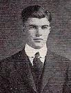 Photo of Elton Rynearson, cropped from the 1916 Michigan State Normal College (now Eastern Michigan University) football team.